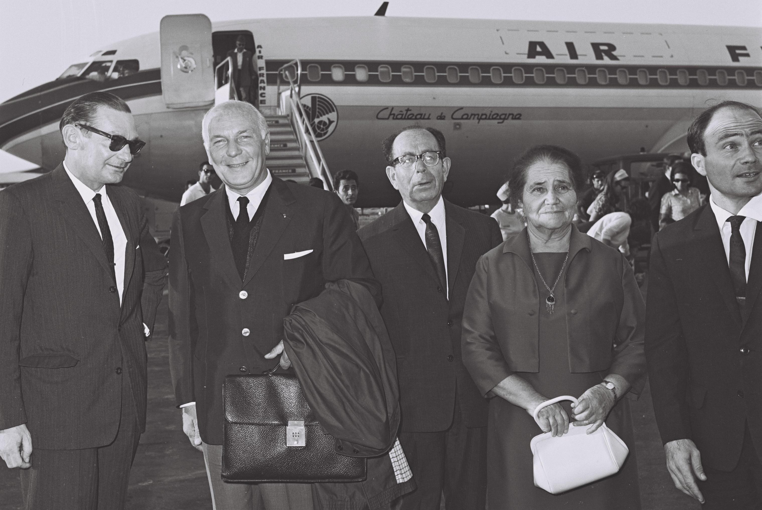 VICE PRES. OF THE FRENCH NATIONAL ASSEMBLY M. PERETTI (2ND L) ARRIVING AT LOD AIRPORT FOR INAUGURATION OF THE NEW KNESSET BUILDING IN JERUSALEM.